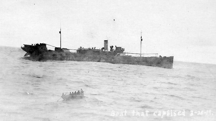 USS Scranton (ID # 3511) "Boat that capsized", 28 March 1919. USS El Sol (ID # 4505) is in the background. Photograph from the USS Scranton photo album kept by J.D. Bartar, one of her crew members. U.S. Naval Historical Center Photograph.